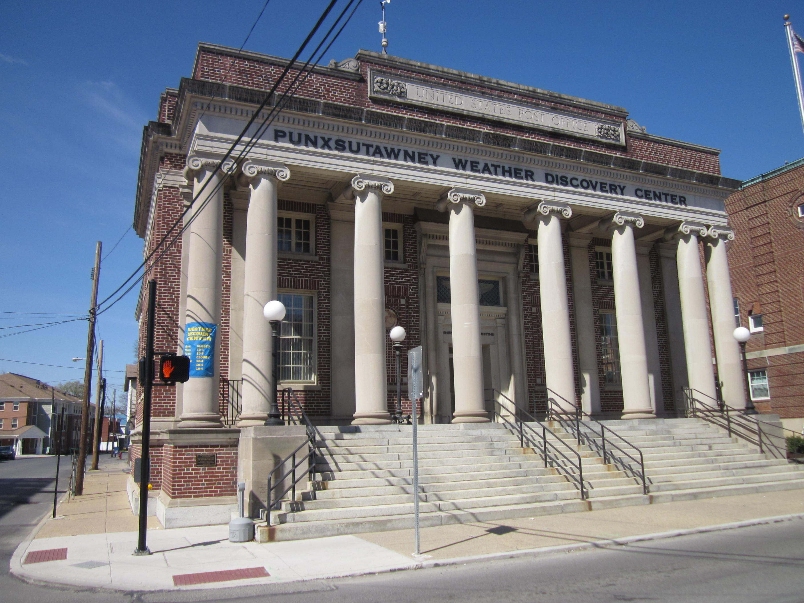 United States Post Office-Punxsutawney on the NRHP since November 22, 2000, at 201 North Findley Street Punxsutawney, Pennsylvania.